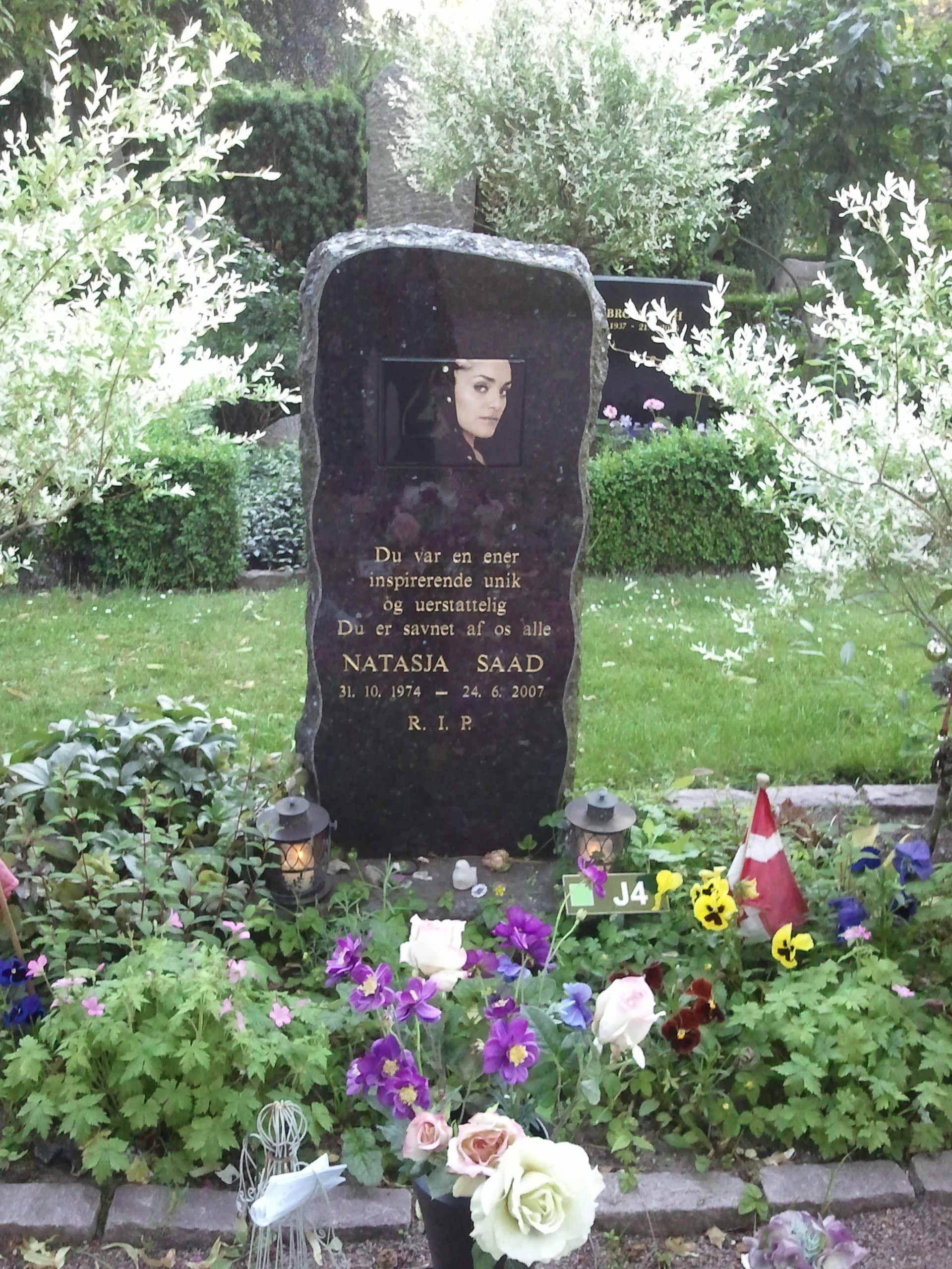 The grave of Natasja Saad at Assistens Kirkegård in the Nørrebro section of Copenhagen, Denmark.